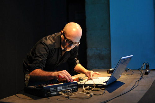 This is a picture taken in Aix en Provence/Seconde Nature during a protofuse's music live performance